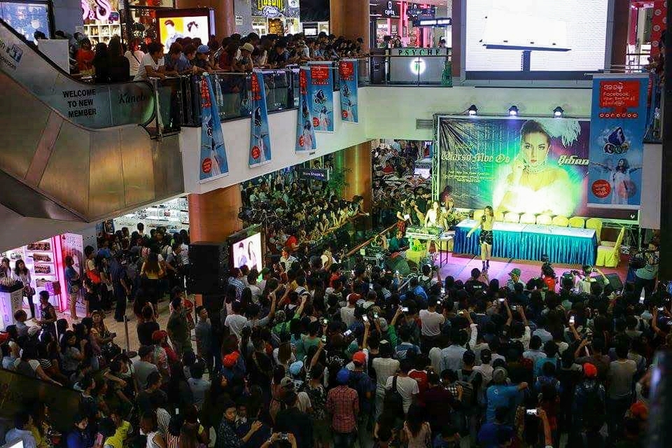 Warso Moe Oo is a actress and singer from Myanmar.